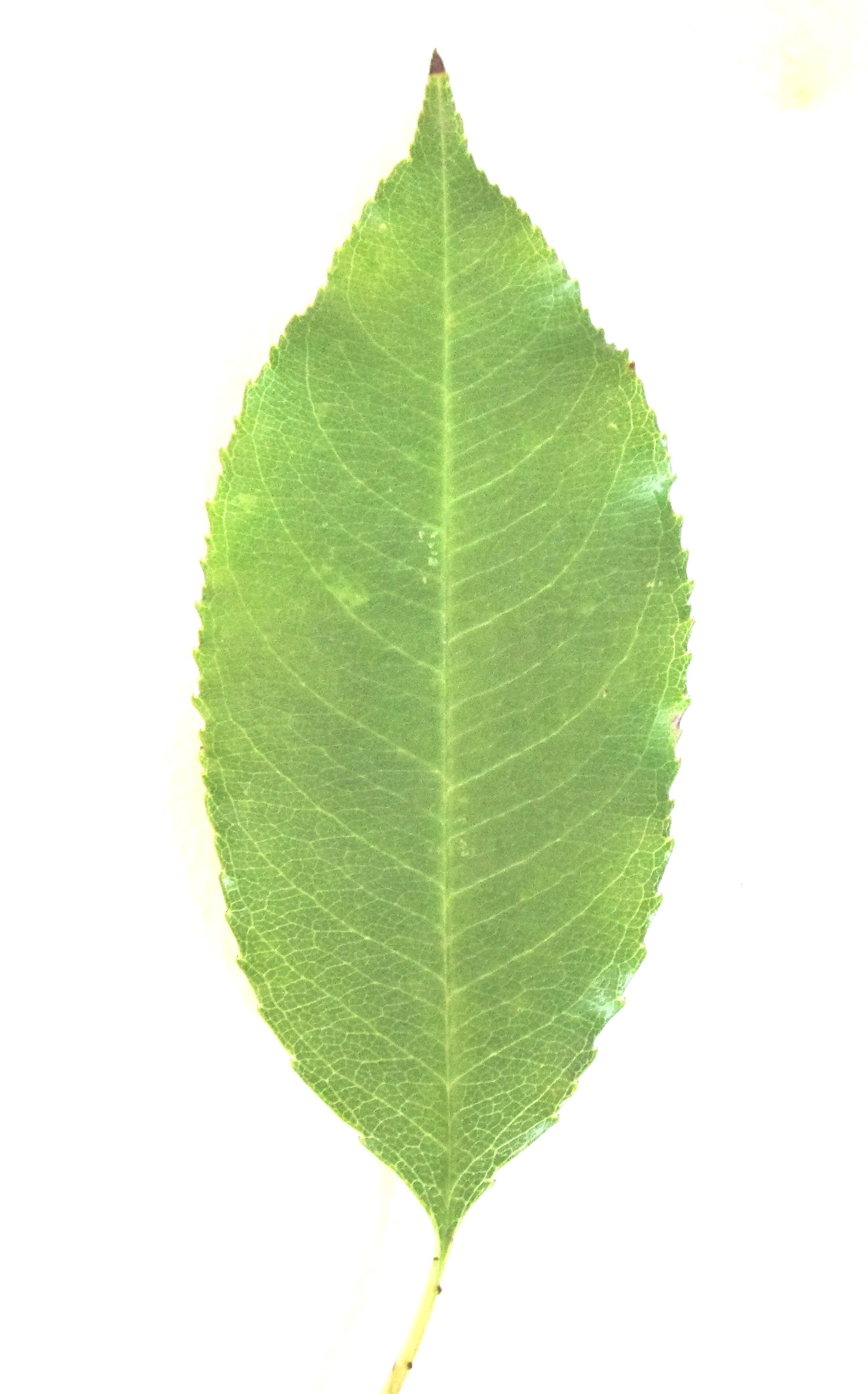 Leaf from a Blackgum Tree Nyssa sylvatica in Missouri.